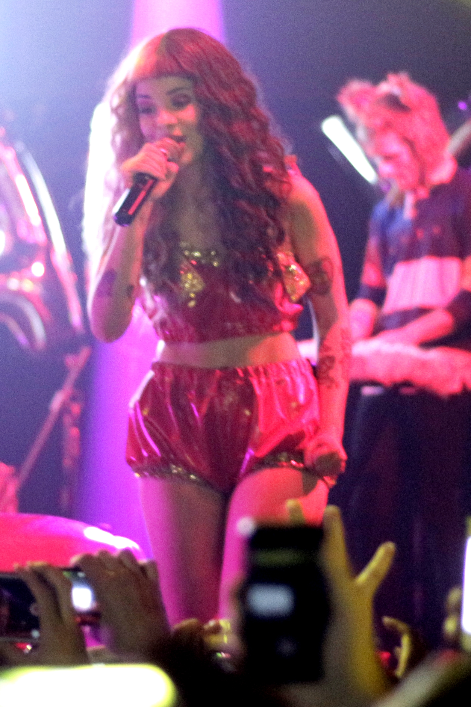 Cropped version of this image.